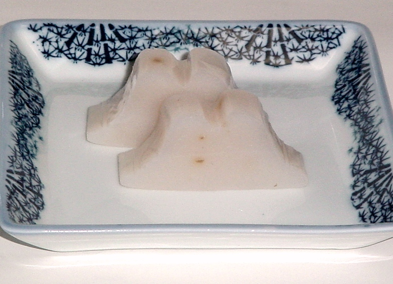 cross ｓｅｃｔｉｏｎ of karasumi rice cake in Gifu pref., Japan